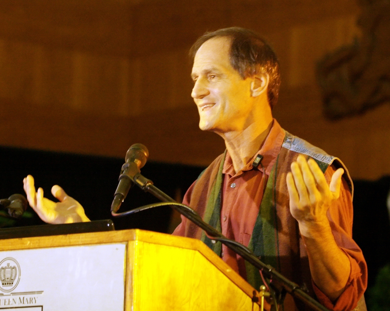 Michael Newdow speaking at the Atheist Alliance International Convention in Long Beach, California